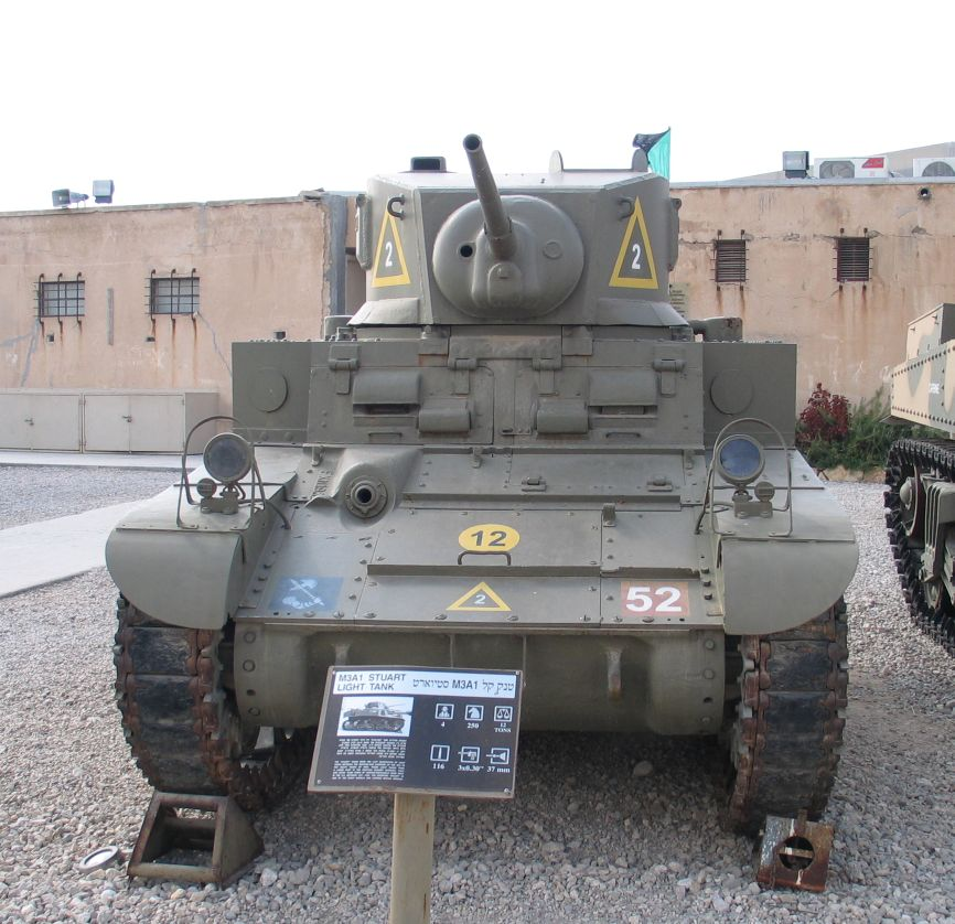 Description: M3A1 Stuart light tank in Yad la-Shiryon Museum, Israel. 2005. Source: Photo by me, User:Bukvoed.